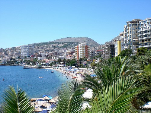 SARANDA